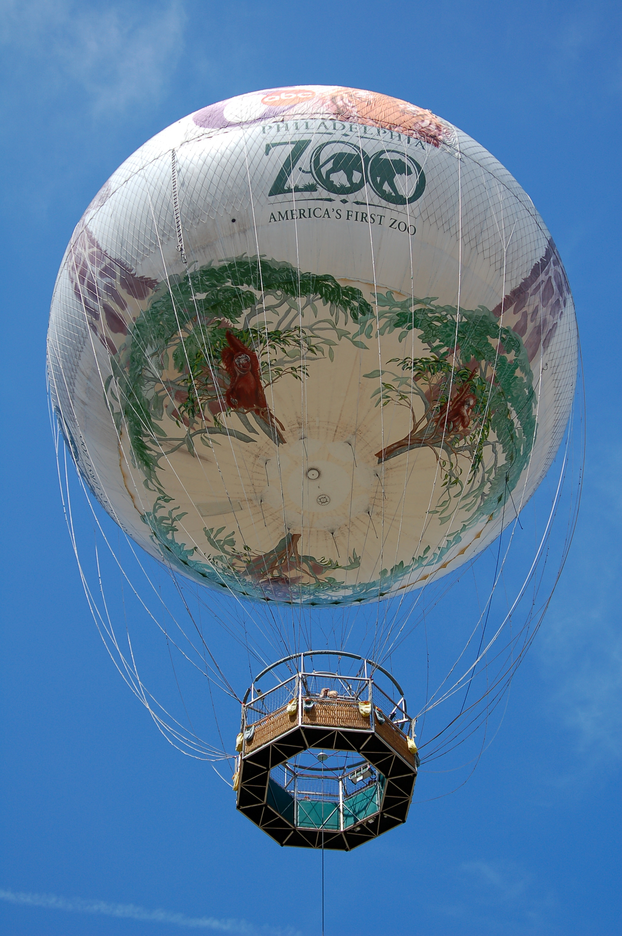 The WPVI Zoo Balloon at the Philadelphia Zoo